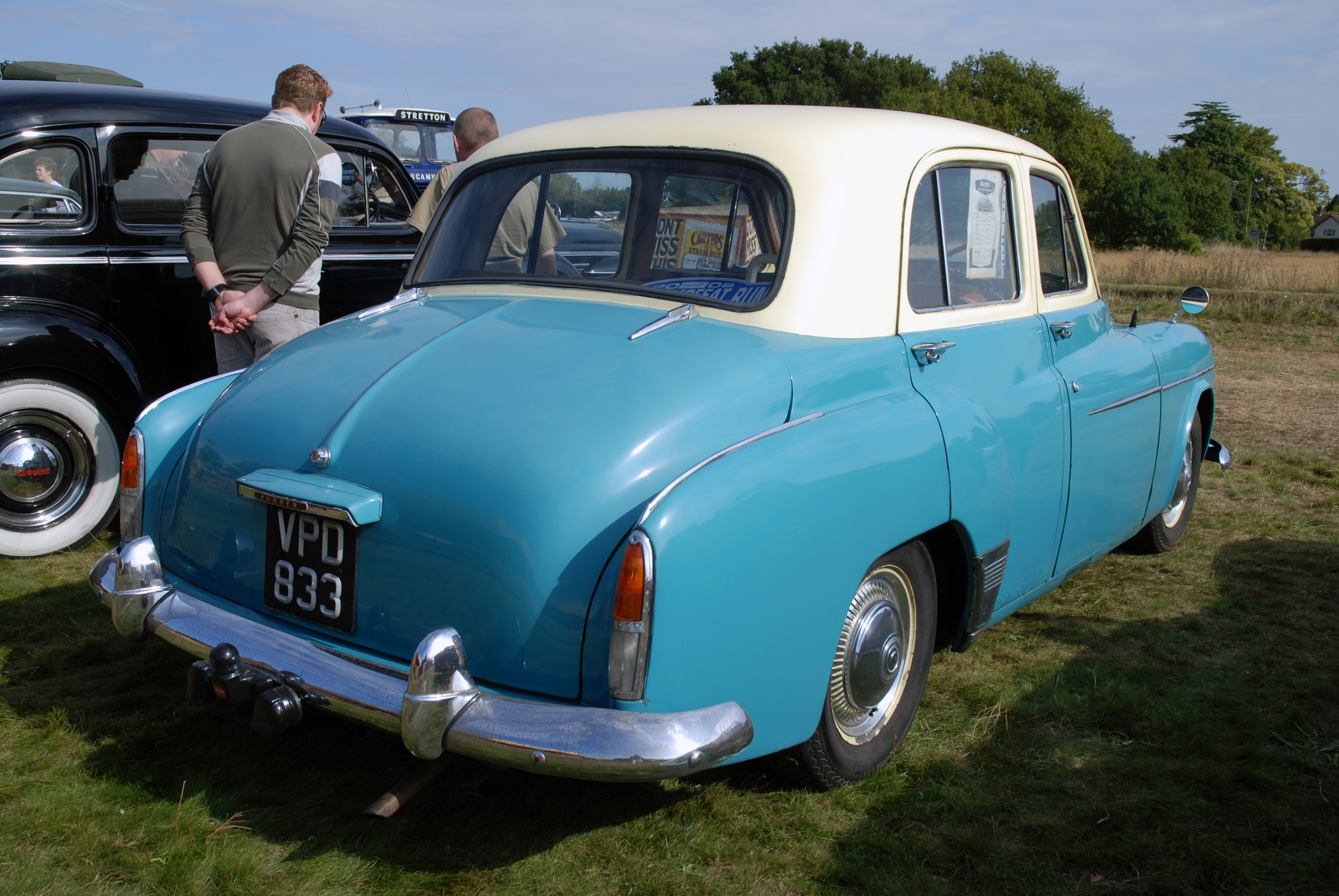 Humber Hawk (DVLA) first registered 6 August 1954, 2267 cc Croxley Green,Sep 2009